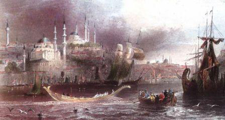 Haliç, Boats on the Golden Horn in Ottoman-era Istanbul, Ottoman engraving